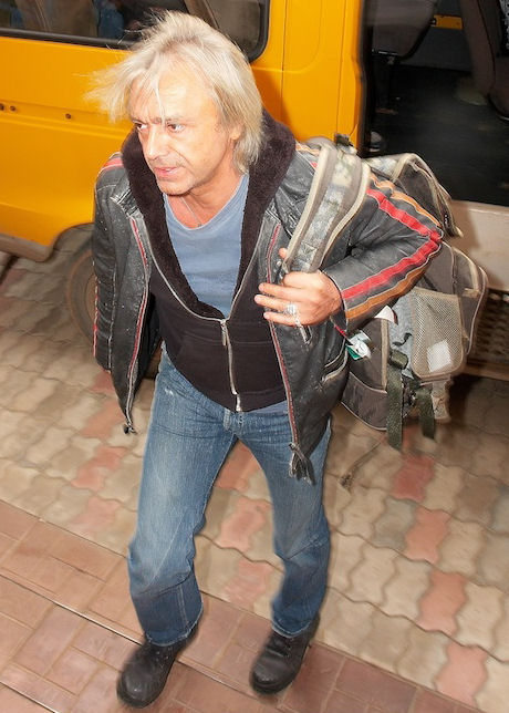 Сыктывкар, магазин «Музыкальный мир», 1 сентября 2007 года